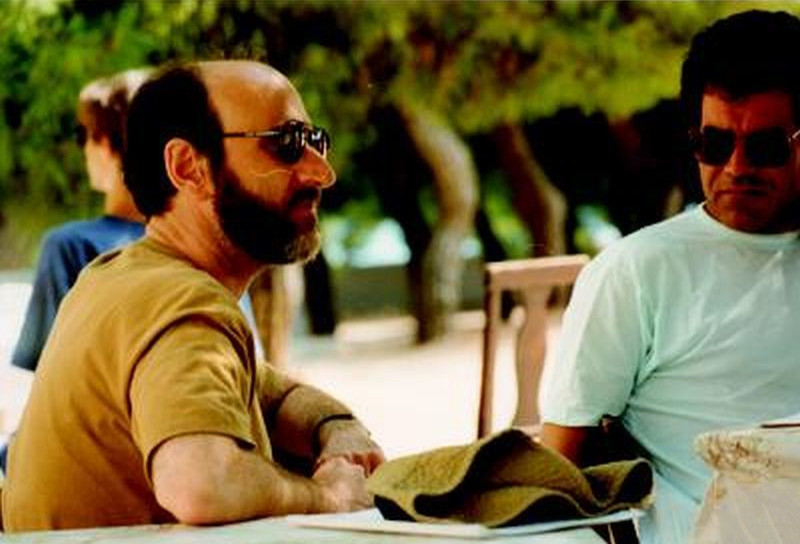 Alexander S. Kechris (left) 1992